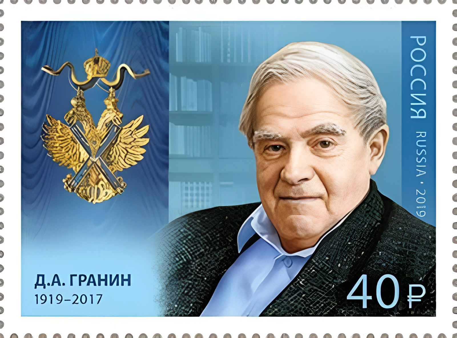 Daniil Granin